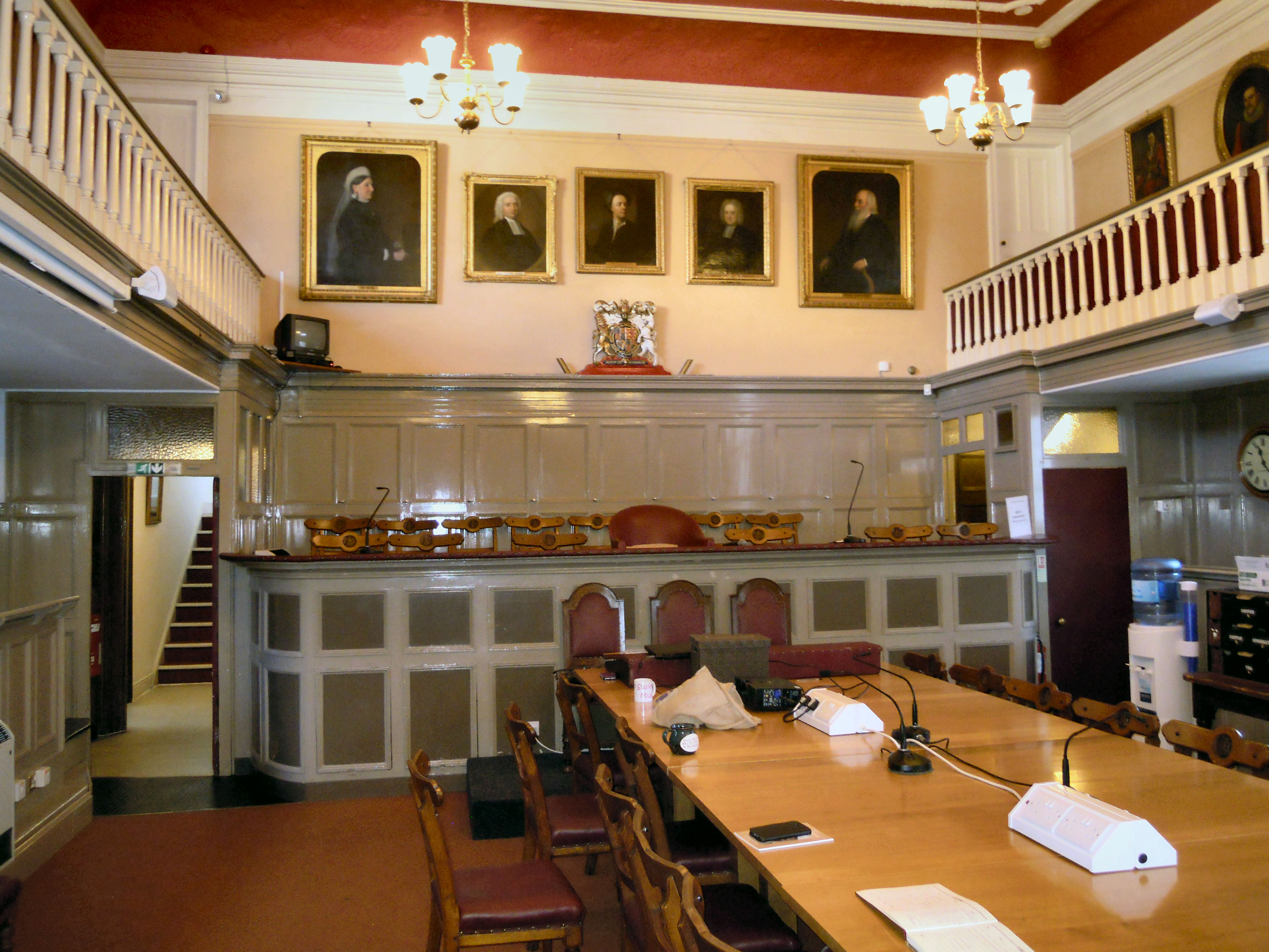 The Chamber at the Guildhall and Pannier Market at Barnstaple in Devon.